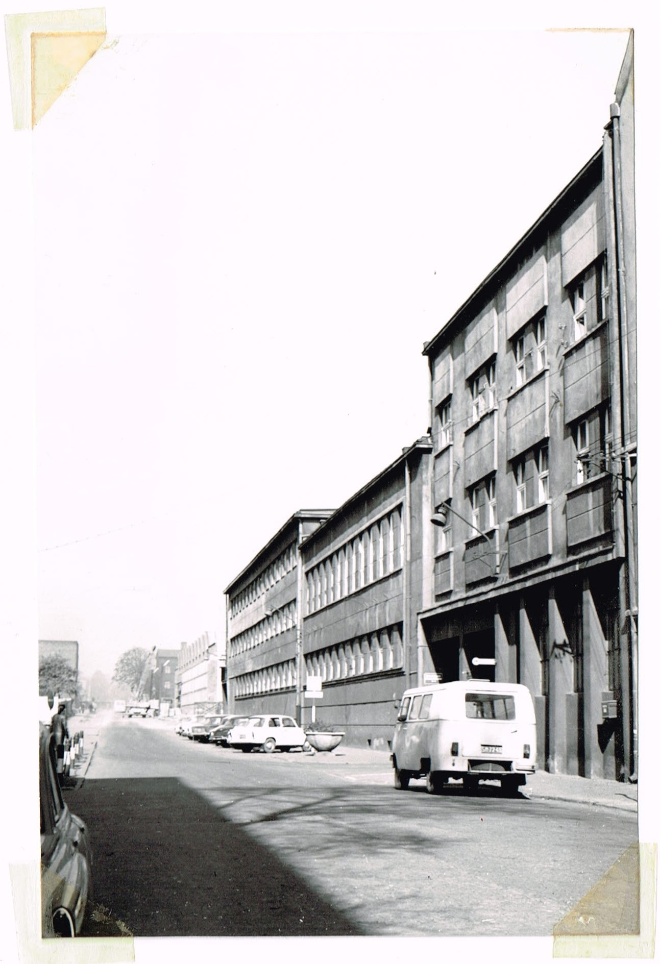 A photo depicting the production hall used by FASING Group, a manufacturer of industrial chains